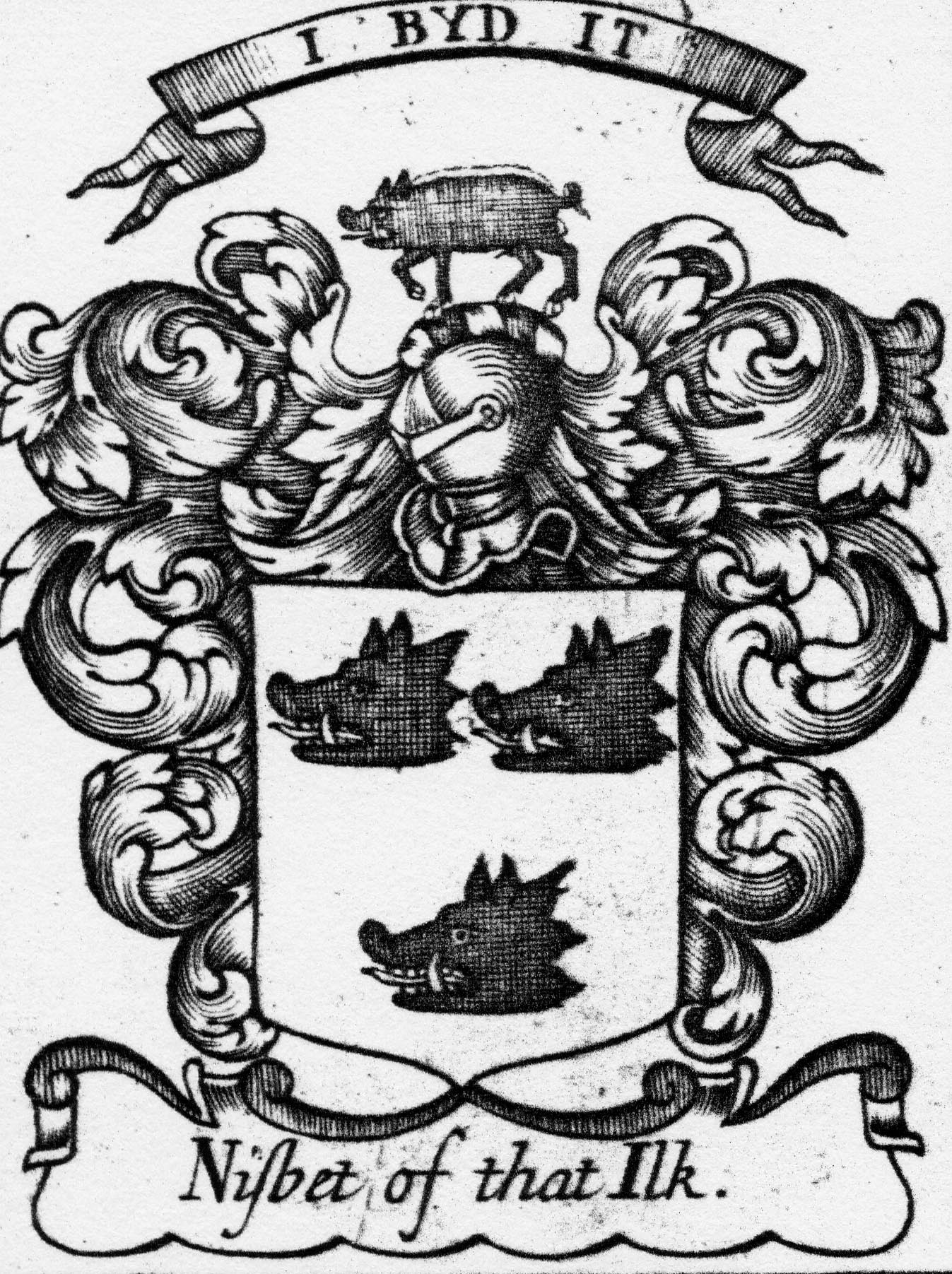 Arms of Nisbet of that Ilk